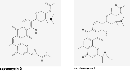 Saptomycins D and E